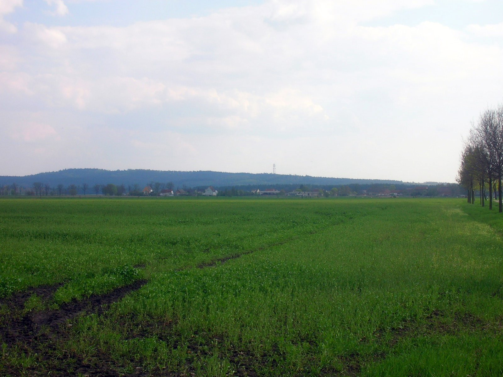 Golmberg in Brandenburg, Germany, from the North